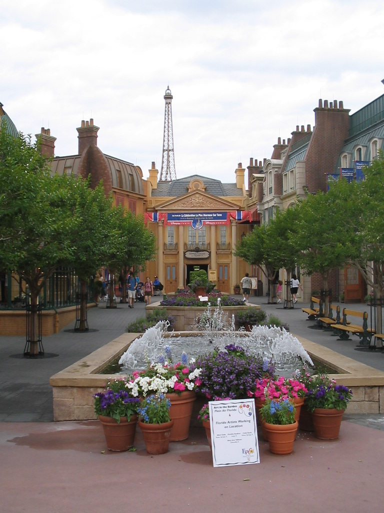 Epcot, France paviljon, Orlando, May 2005